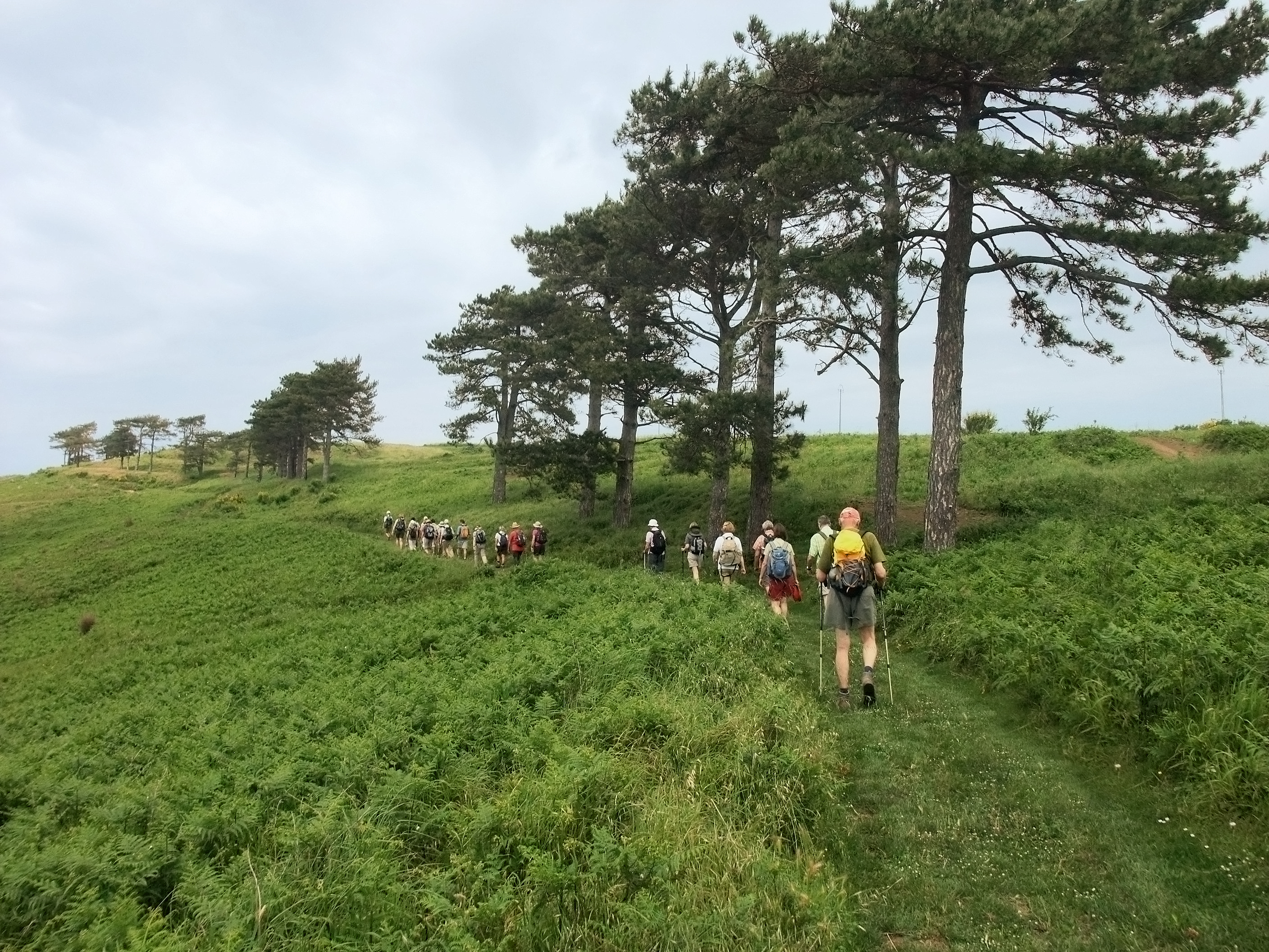 Calabria is the southernmost region of the Italian peninsula. Ascent of Monte Sant'Elia di Palmi (579 m).